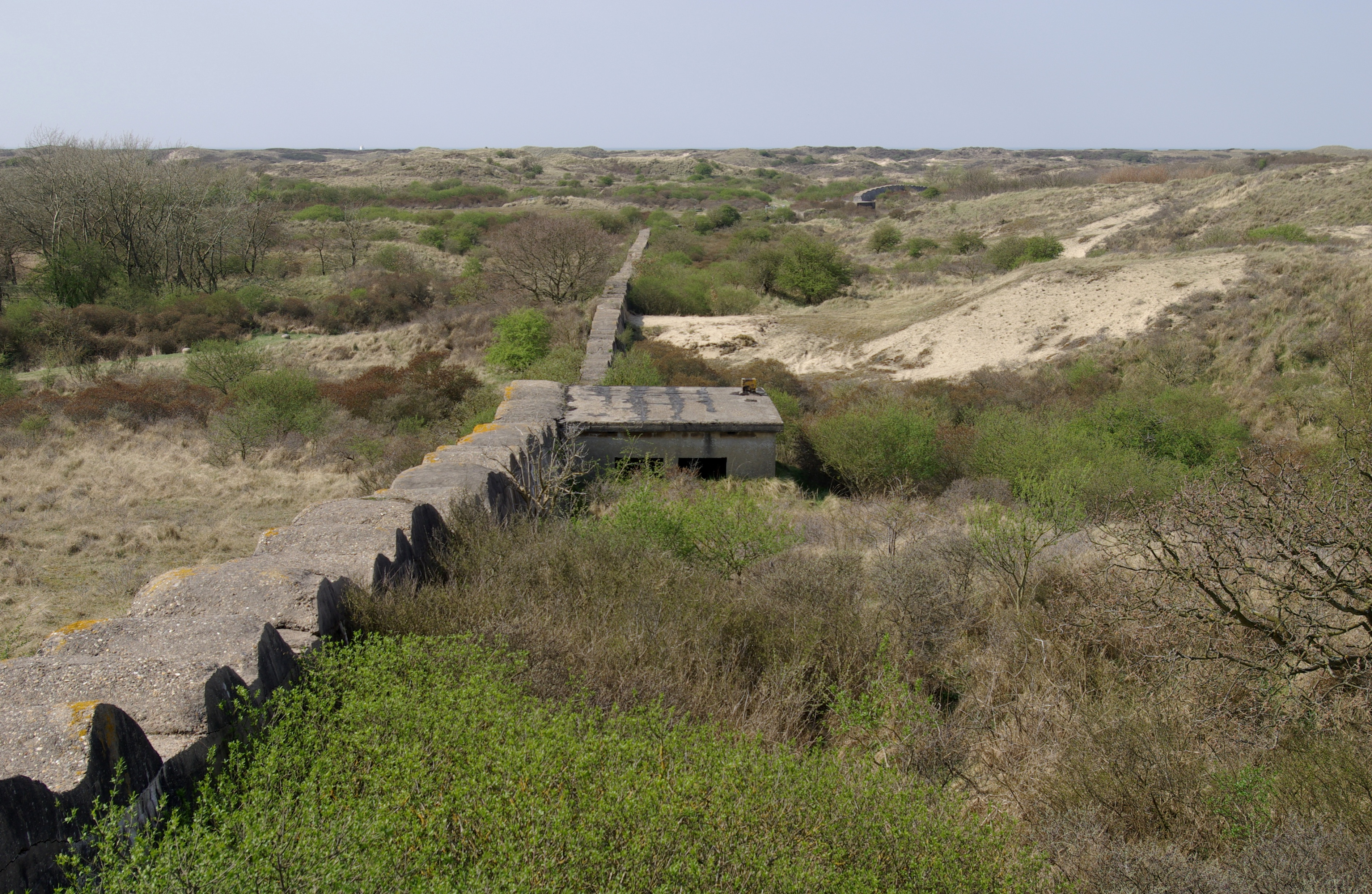 Atlantic Wall, Katwijk, anti-tank obstacles